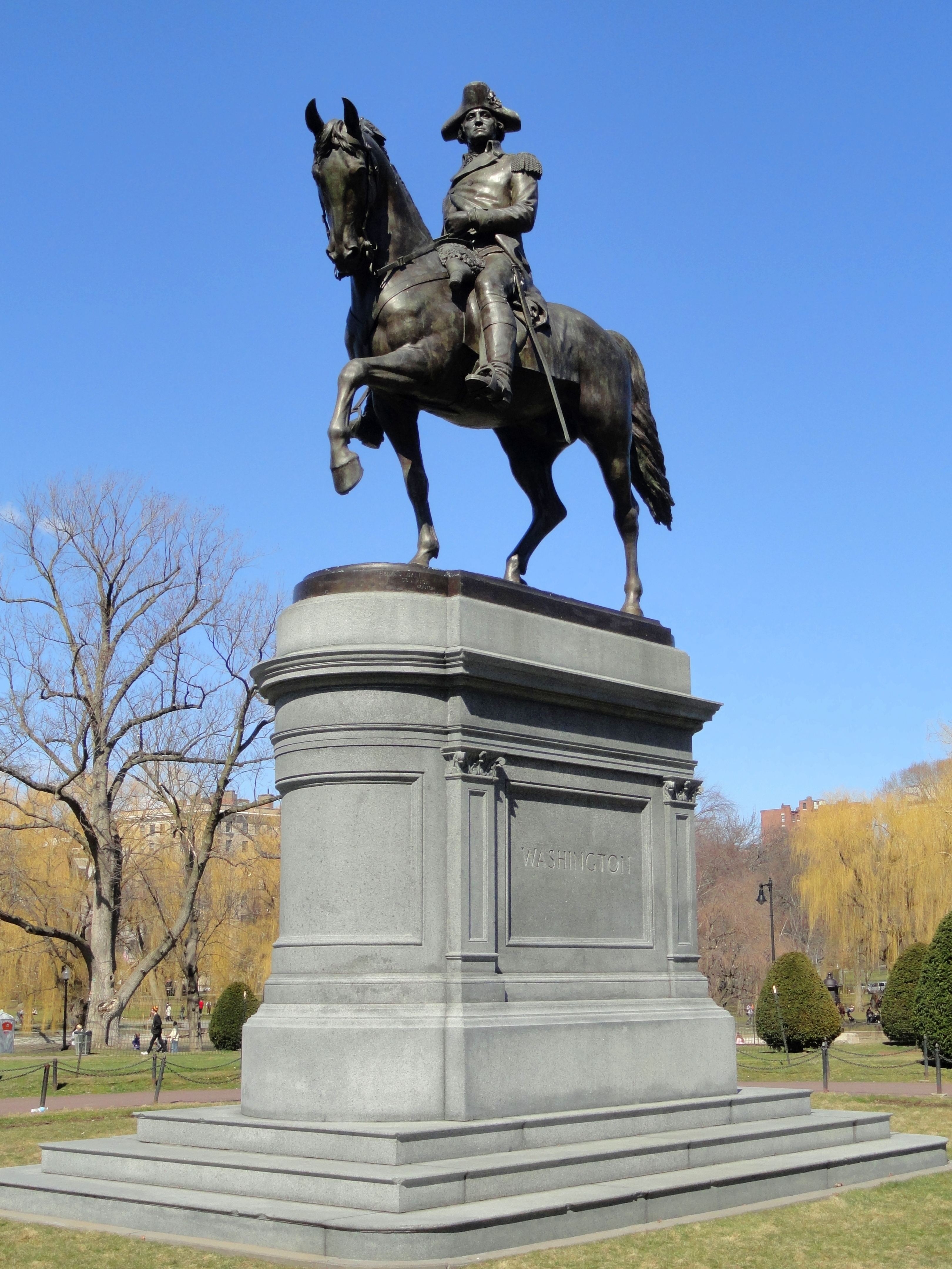 George Washington statue in the Boston Public Garden, Boston, Massachusetts, USA. Sculptor: Thomas Ball. This artwork is now in the public domain because the artist died more than 70 years ago.